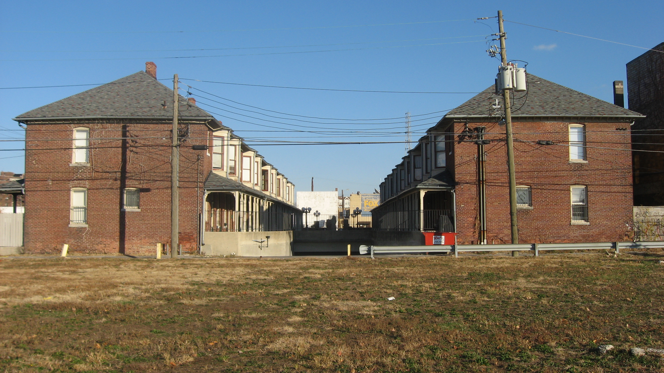 Western end of the Vera and the Olga, located at 1440-1446 N. Illinois Street in Indianapolis, Indiana, United States. Built in 1901, it is listed on the National Register of Historic Places.